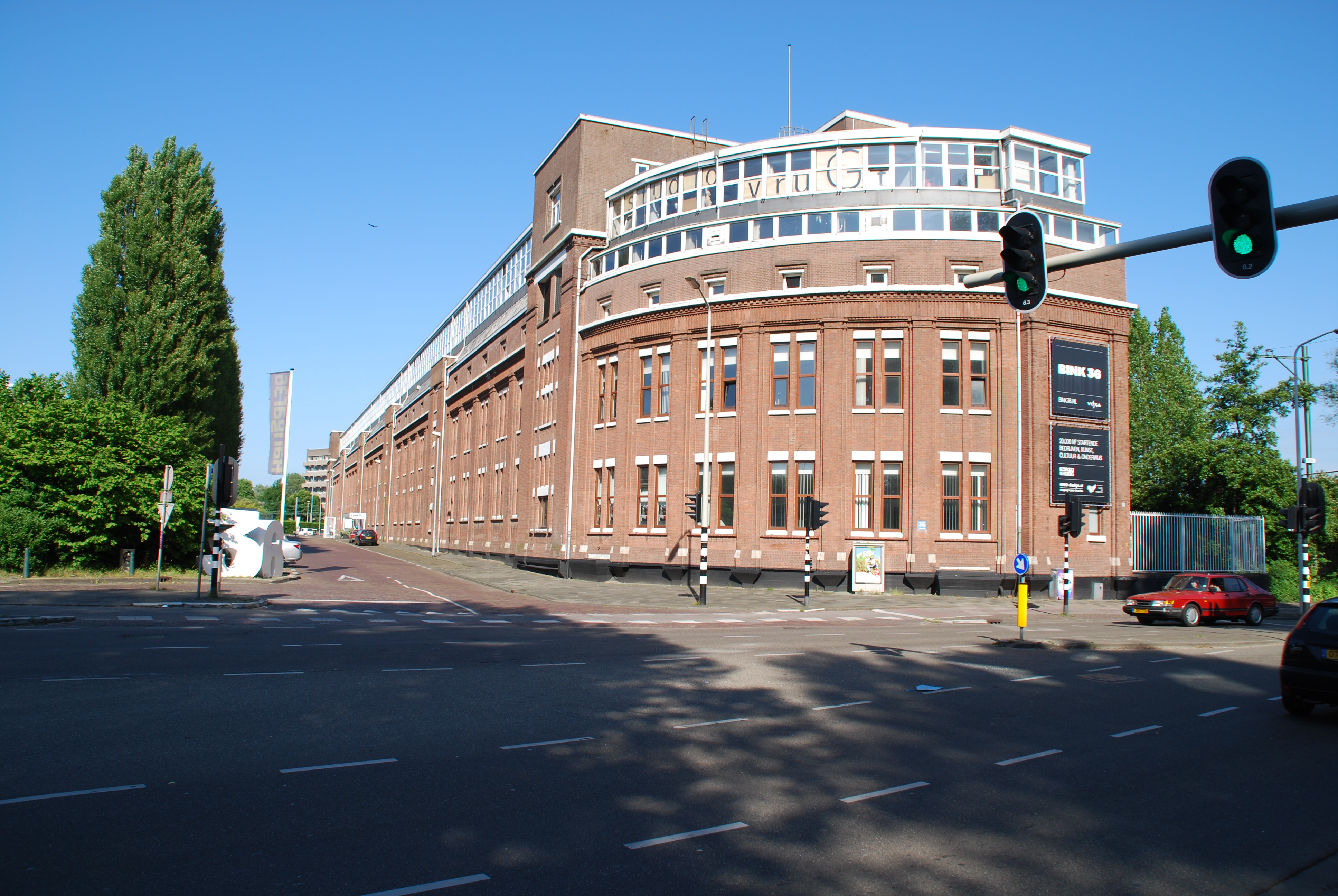 De Bink 36, the Hague - the Netherlands